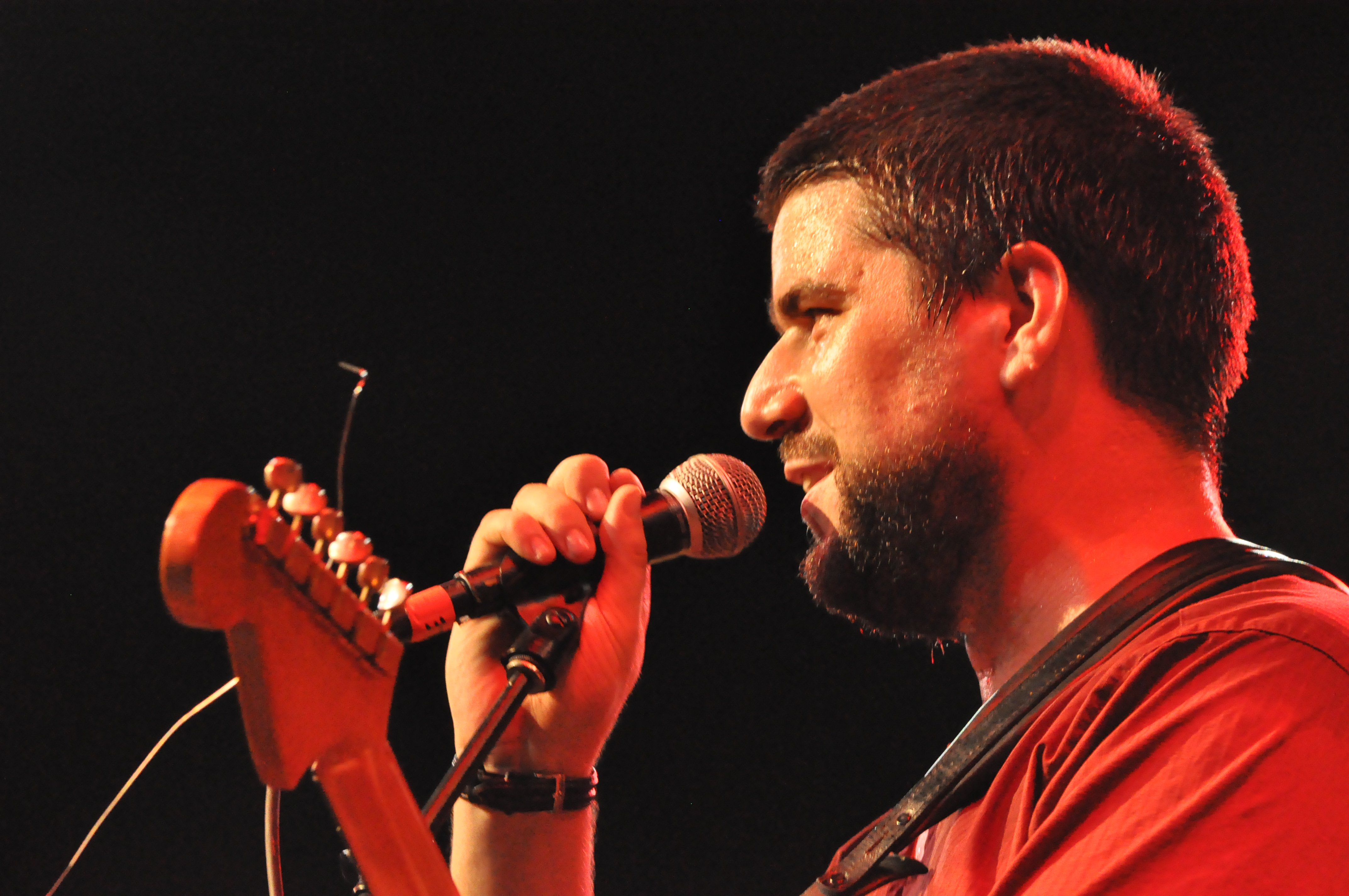 Will Holland, known professionally as Quantic, performing with his band Quantic and his Combo Barbaro in 2009